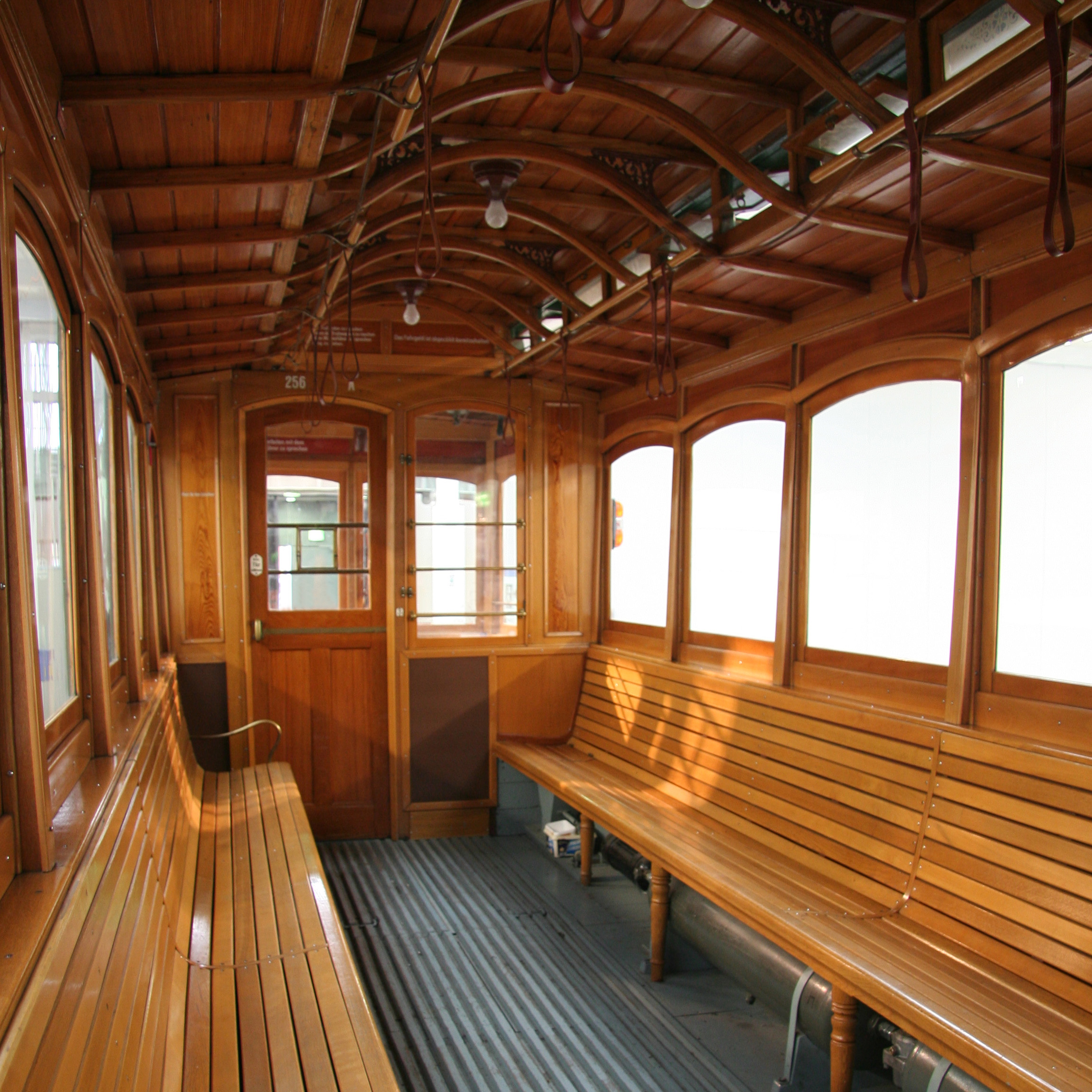 Munich tram type A 2.2 in the Munich transport museum, interior